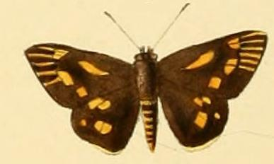 Plate: Cyclopides Cyclopides capenas. Figs. 2, 3. Accepted as Ampittia capenas (Hewitson, 1868).